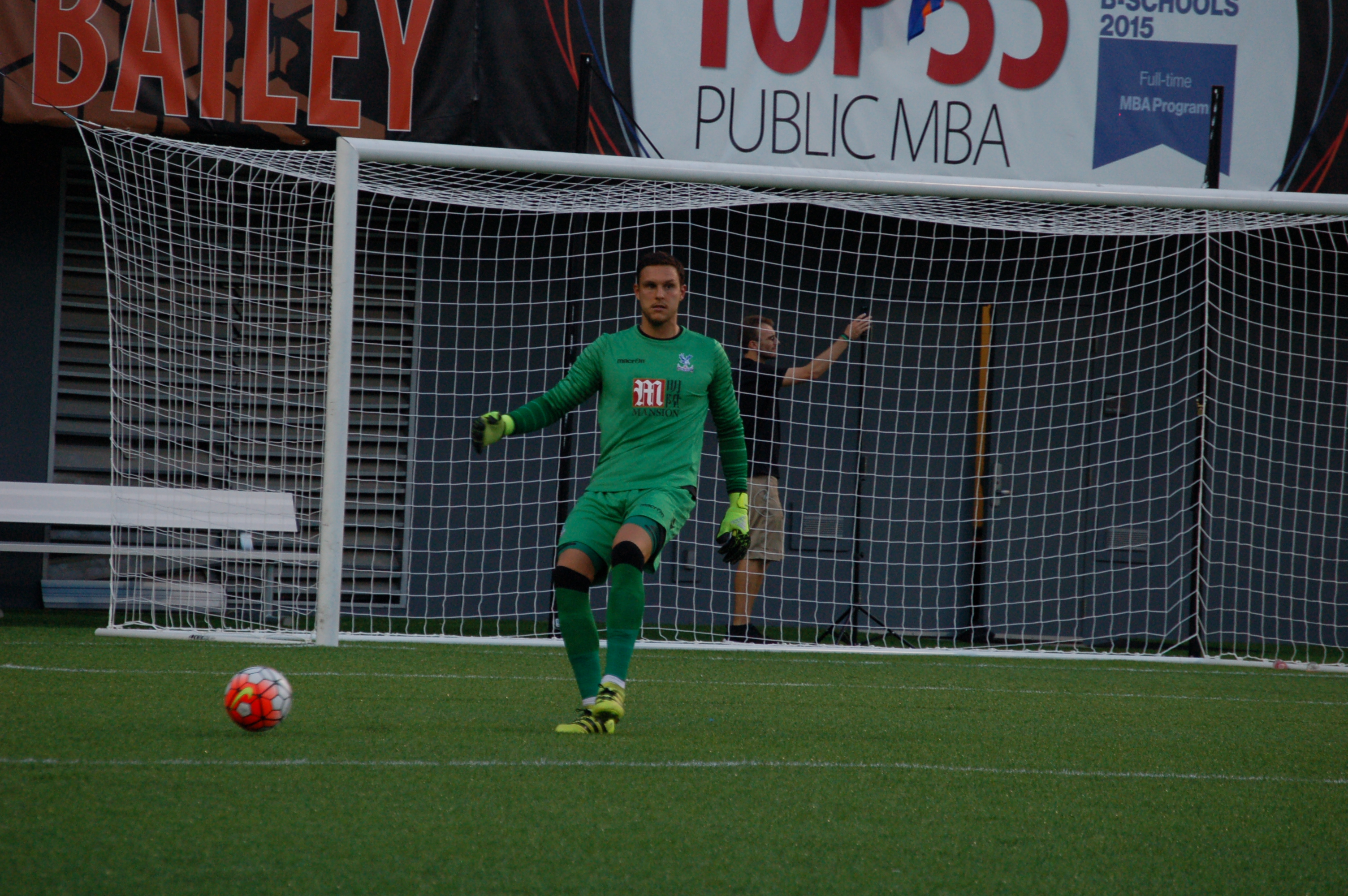 Alex McCarthy (PAL) Taken during an exhibition match between FC Cincinnati and Crystal Palace F.C. at Nippert Stadium in Cincinnati on July 16, 2016.